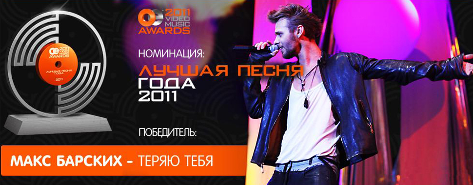 OEVMA2011-02